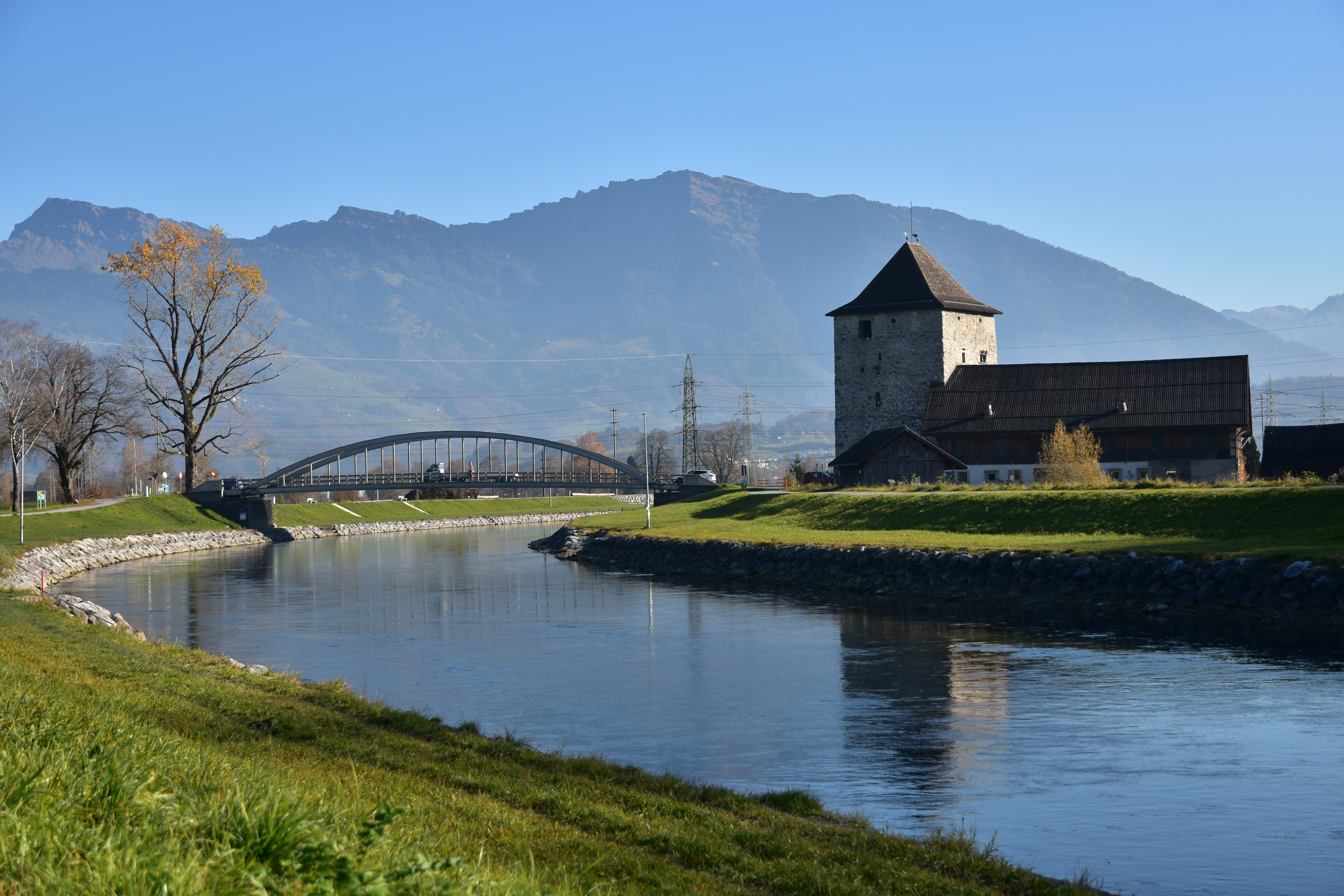 Grynau (Grinau or Schloss Grynau) is a castle tower, situated on the Linth canal in the Swiss municipality of Tuggen in the Canton of Schwyz on the eastern slope of the Buechberg hill. It was built by the House of Rapperswil in the early 13th century AD when the tower was situated on the Tuggenersee lake shore.